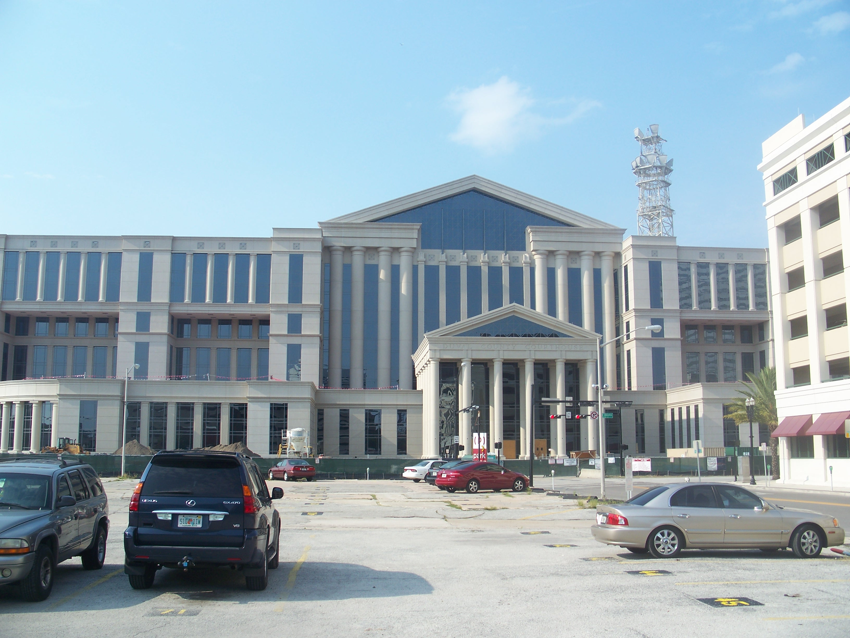 Jacksonville, Florida: Duval County courthouse